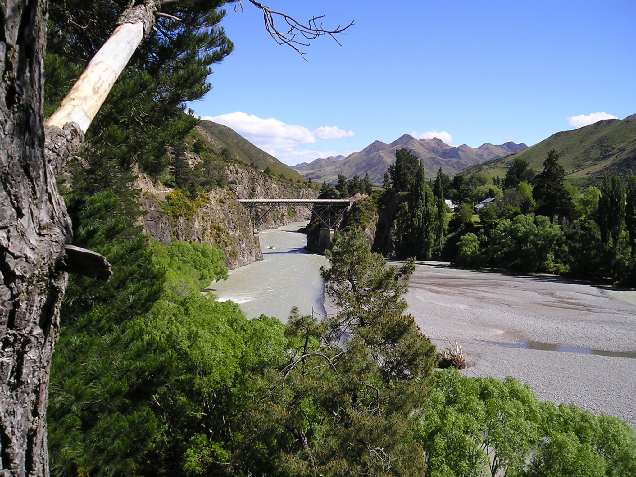 Waiau Ferry Bridge over Waiau River near Hanmer Springs